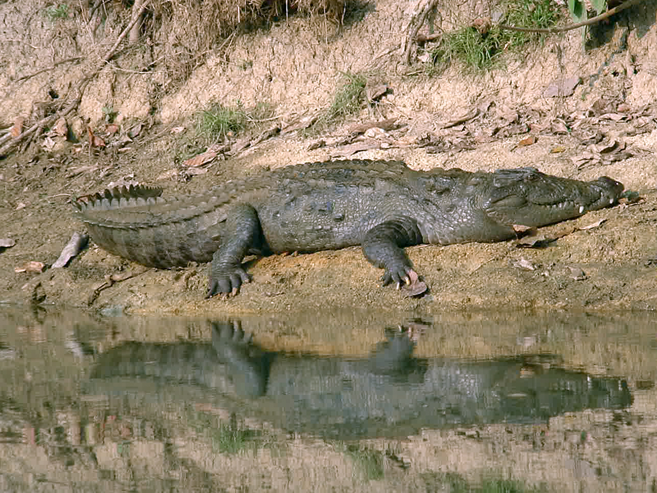 Sunbathing mugger crocodile.